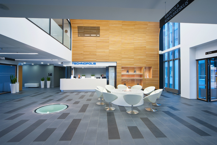 Technopolis Yliopistonrinteen aula Tampereella